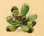 Stainton’s Natural History of the Tineina (1855–1873): Kessleria saxifragae a shoot of Saxifraga aizoon with larval web